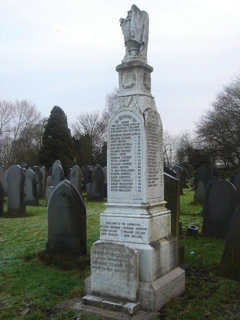 Bedford Colliery monument, Leigh Cemetery. A monument to those who lost their lives in the Bedford Colliery explosion of 13th August 1888.